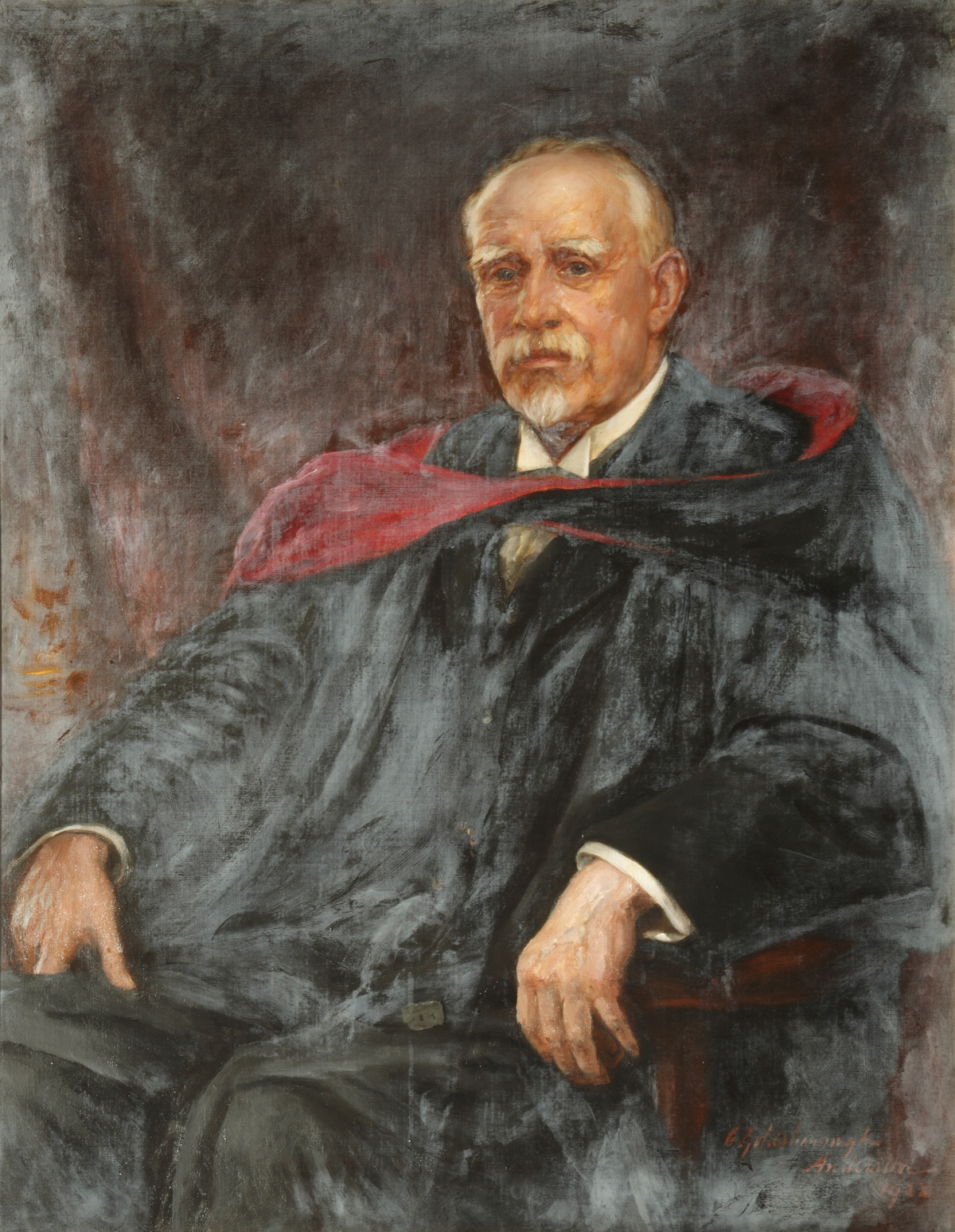 Edward Armstrong (1846-1928), The sitter was a historian. He was educated at Bradfield College and Exeter College, Oxford and was a Fellow of Queen’s in 1869.